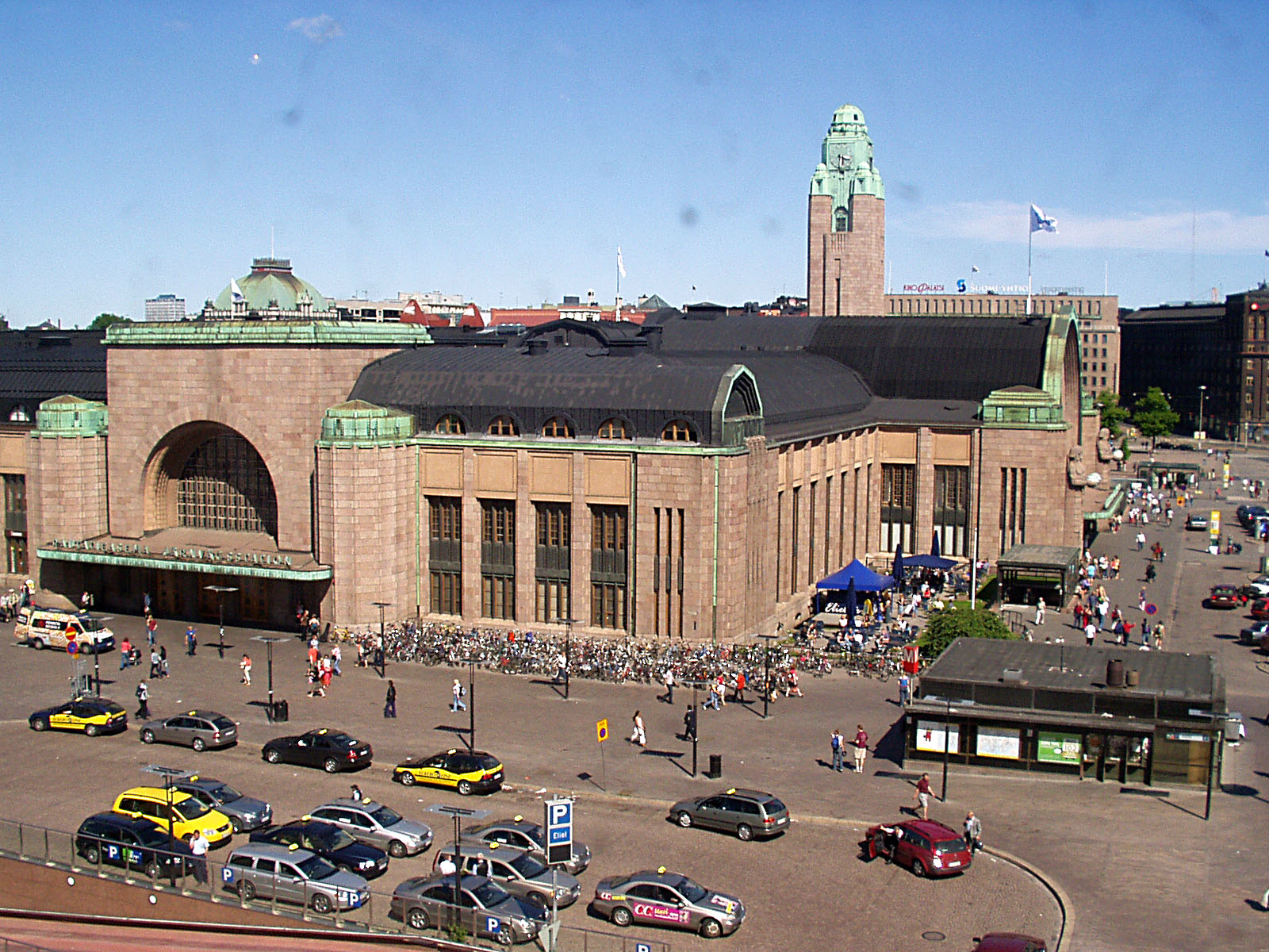 Helsinki Central railway station, Helsinki, Finland